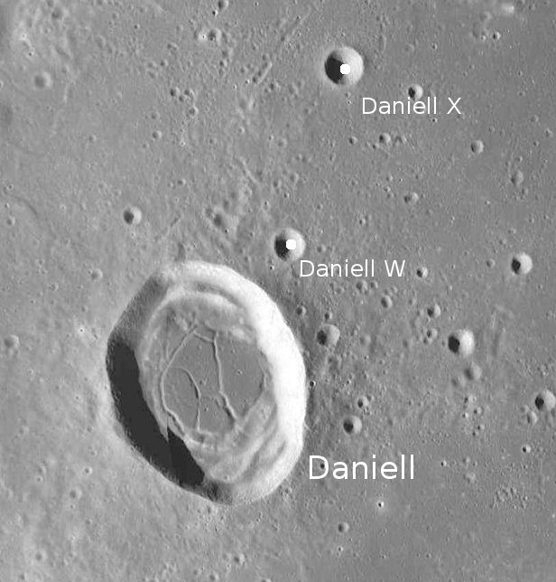 Crater Daniell with satellite features (detail of LRO - WAC global moon mosaic; Mercator projection)